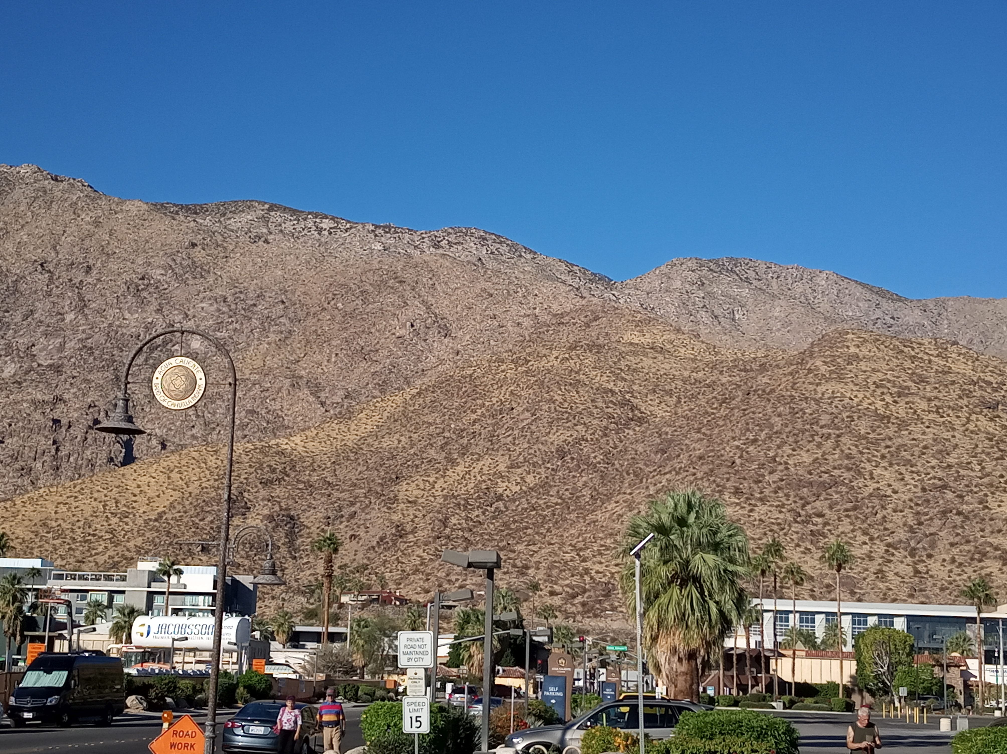 A round sign with the insignia of the Agua Caliente Band of Cahuilla Indians, suspended from a streetlamp post in downtown Palm Springs, California.